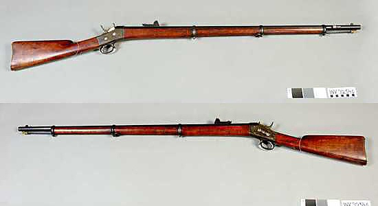 Norwegian rifle m/1867, Remington rolling block. Made by Kongsberg Vaapenfabrik, Norway. From the collection of Armémuseum (The Swedish Army Museum), Stockholm.